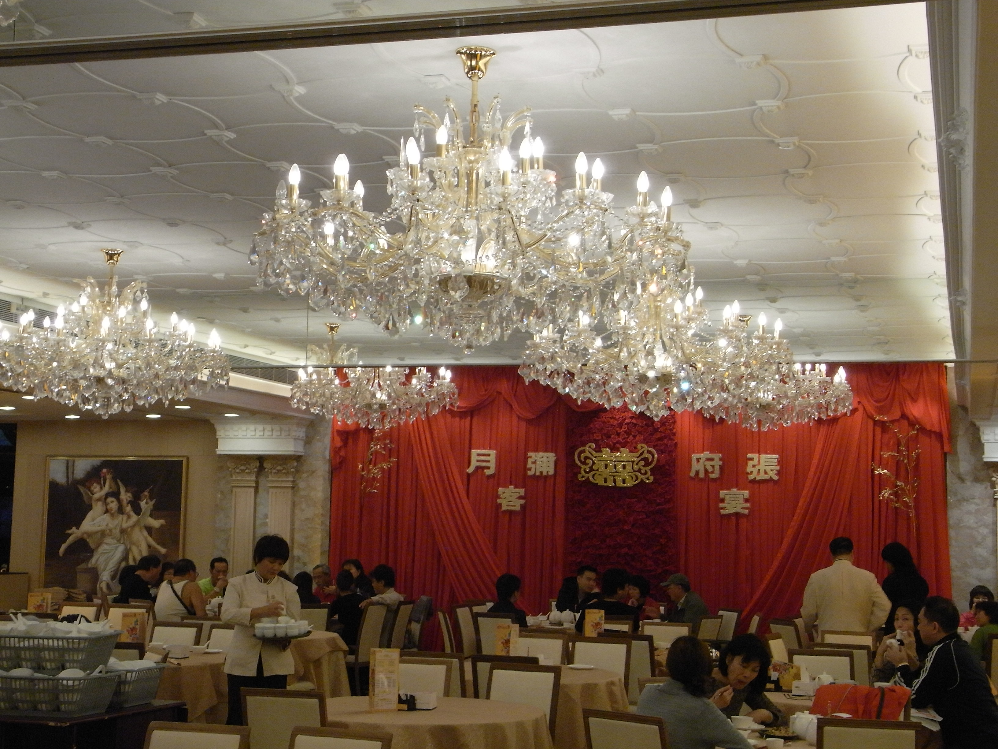 香港石門 內部佈置: 用膳大堂 & 天花板吊燈